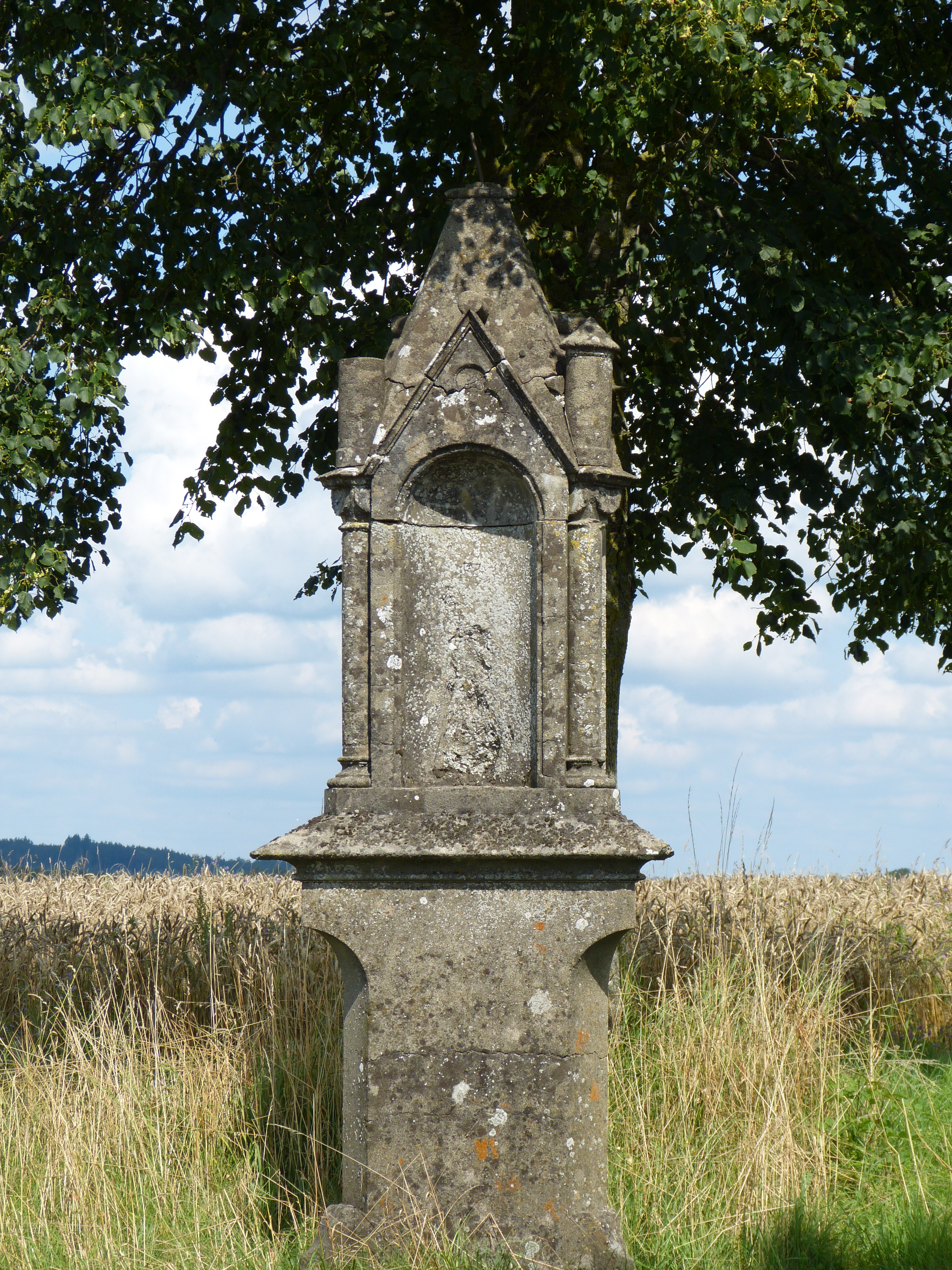 Wayside shrine, 1897, Kirchheim in Swabia, Landkreis Unterallgäu, Bavaria